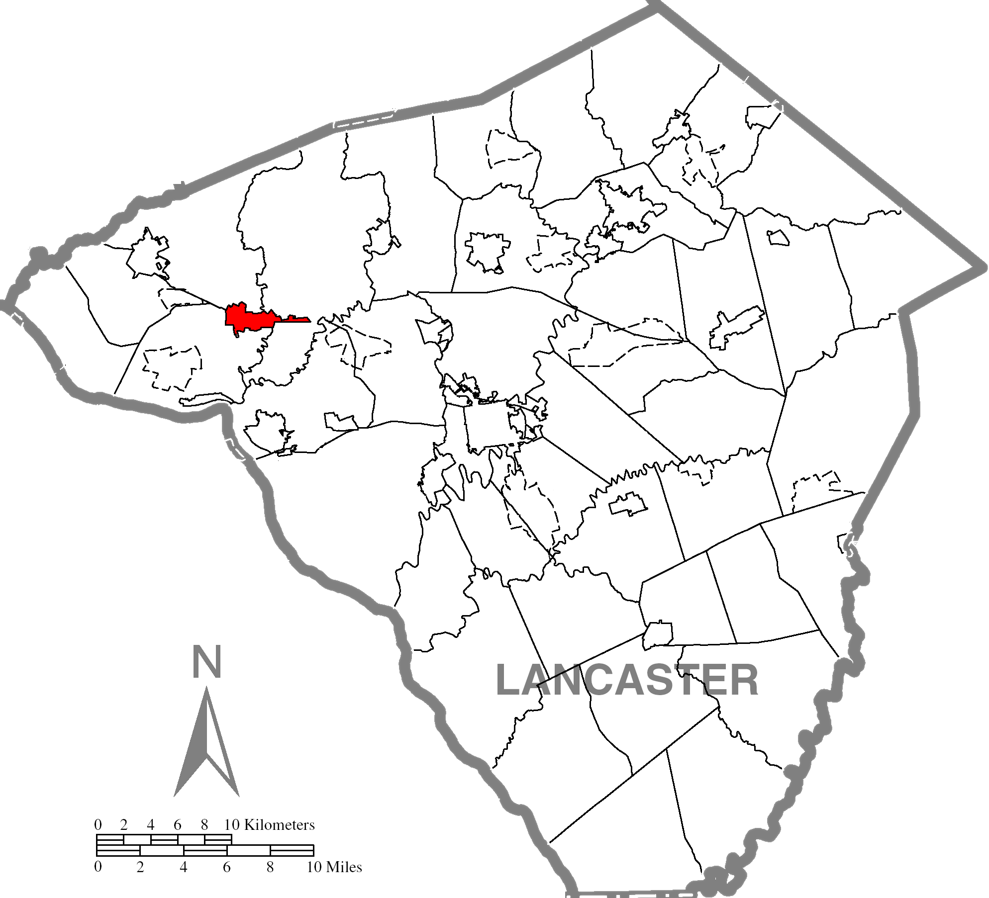 Highlighted Lancaster County map of Mount Joy.